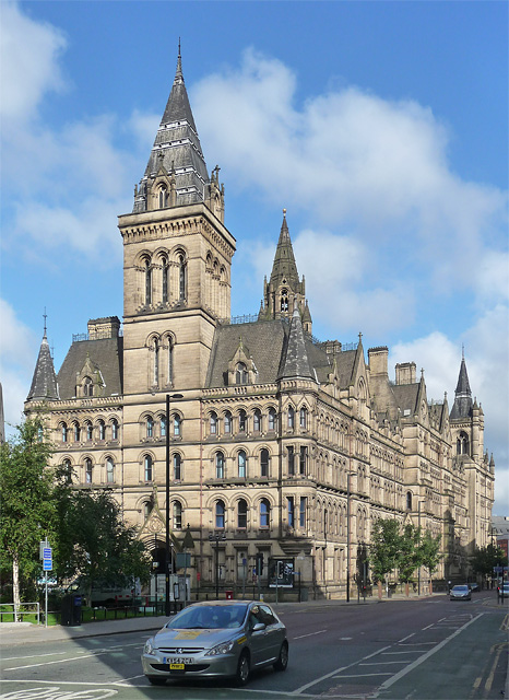 Manchester Town Hall from Princess Street